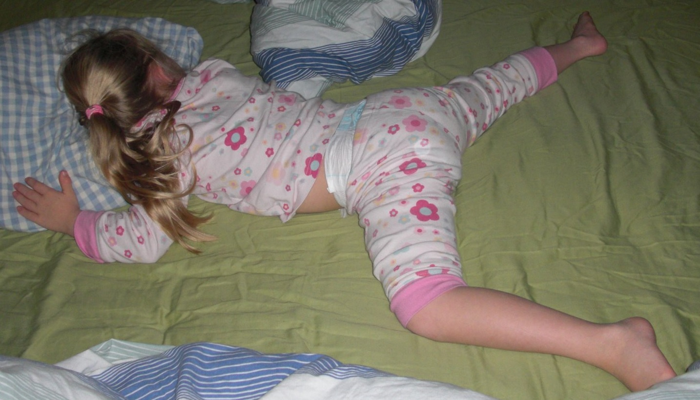 Sleeping